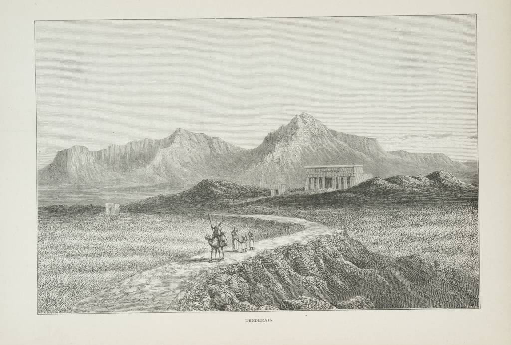 Three figures carrying baskets on their heads follow person on camel back, road leads away temple at the foot of the mountains.